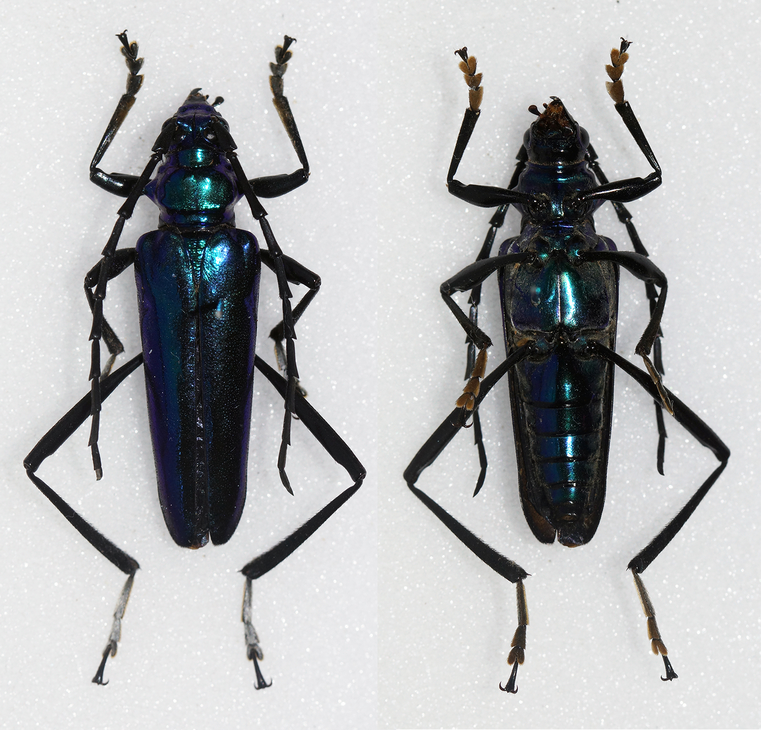 Bates,1879 Sex: Male Data: 08-2015 - Ebogo Centre - Cameroon Size: 25mm